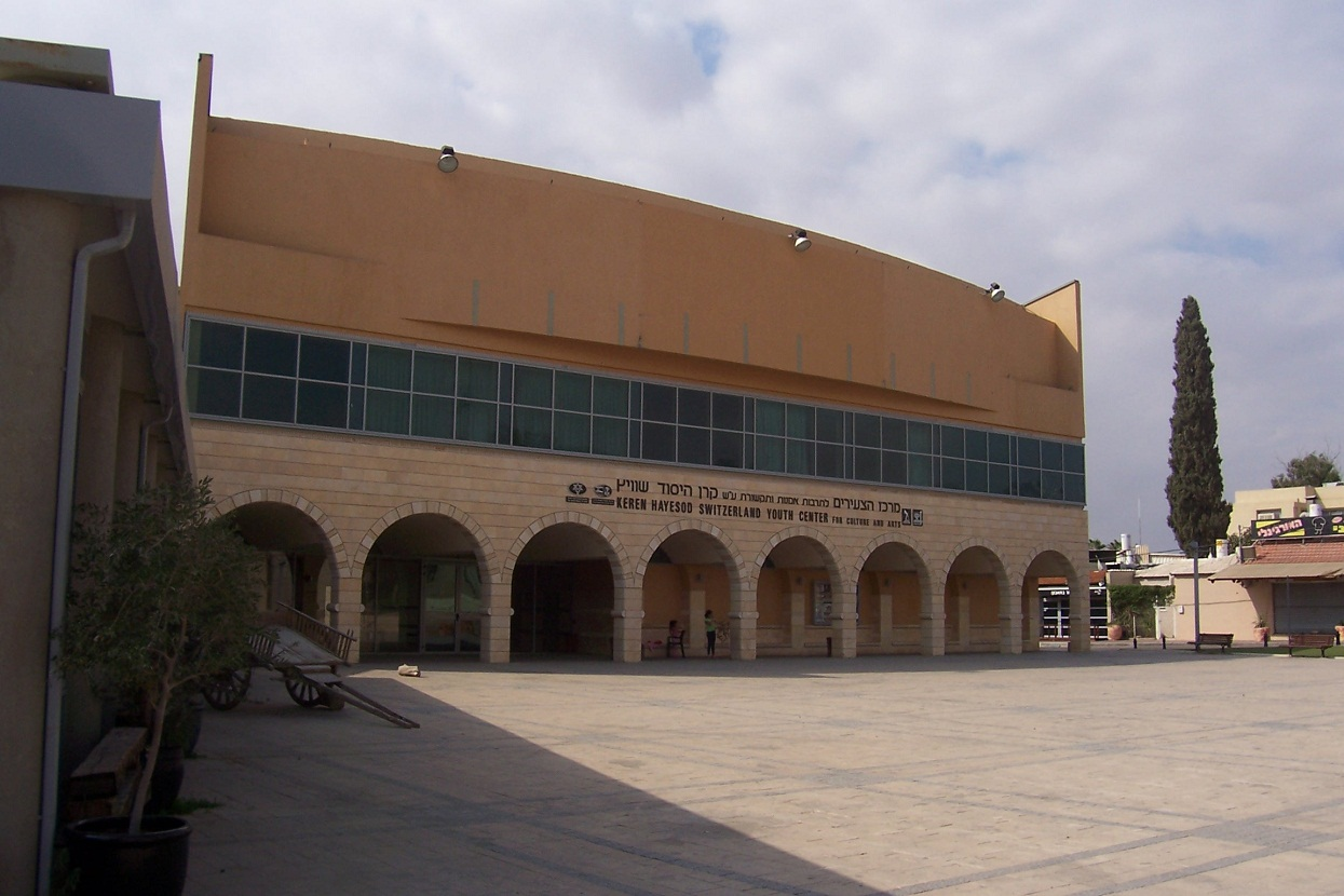 Architecture of Israel